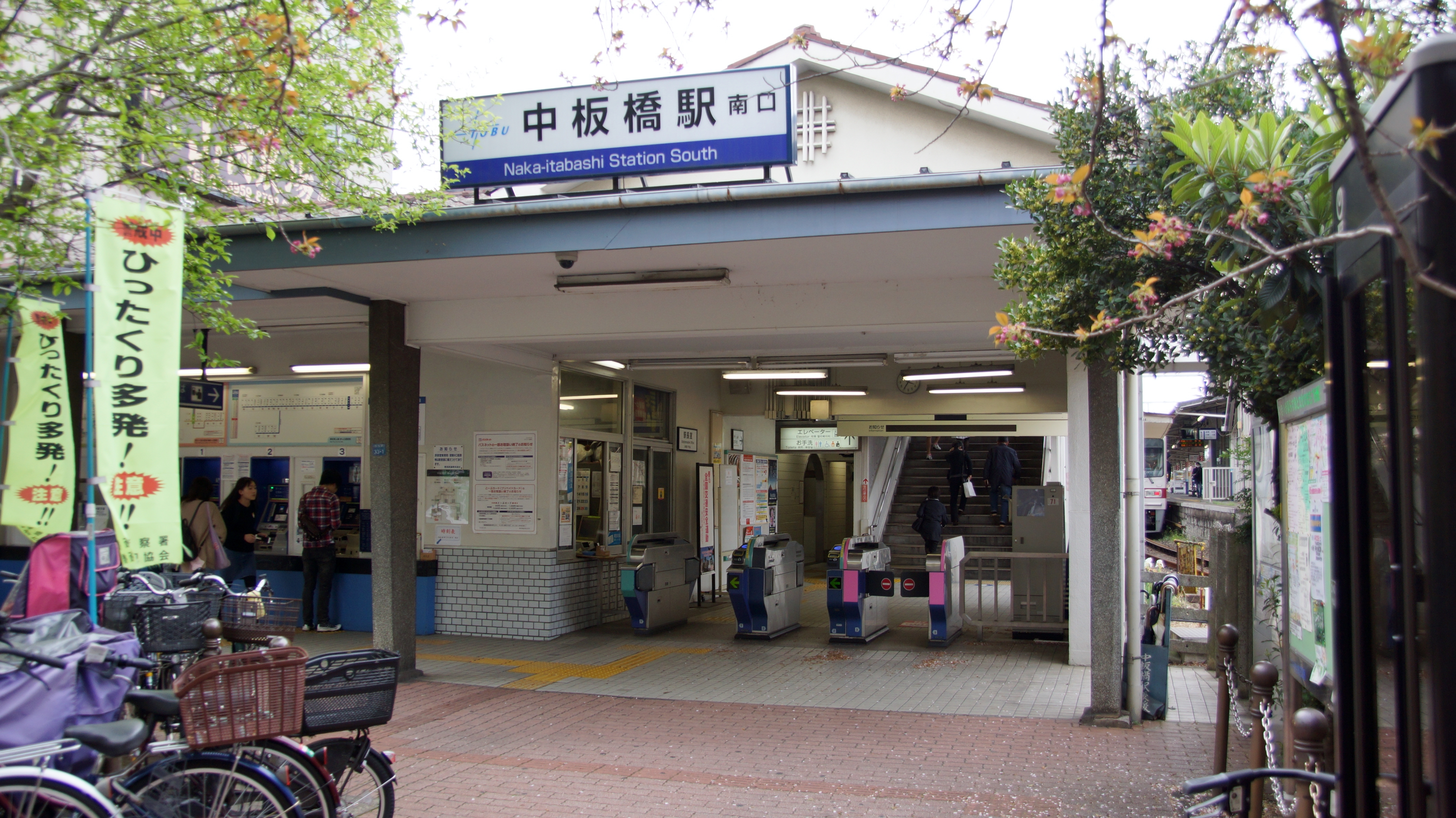 The south entrance at Naka-Itabashi Station on the Tobu Tojo Line in Tokyo, Japan